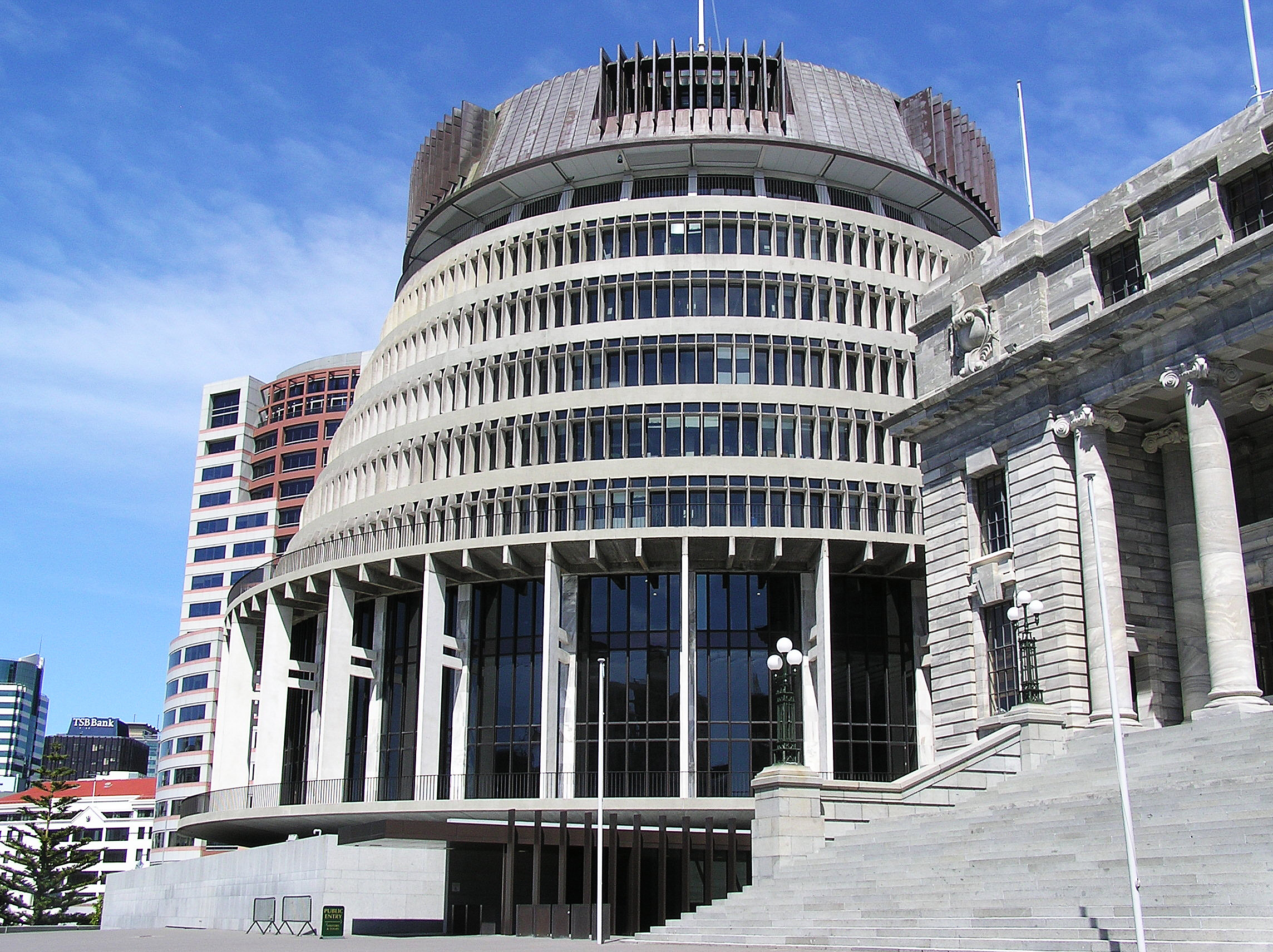 New Zealand Parliament Buildings in Wellington, ('The Beehive') was built in 1915.